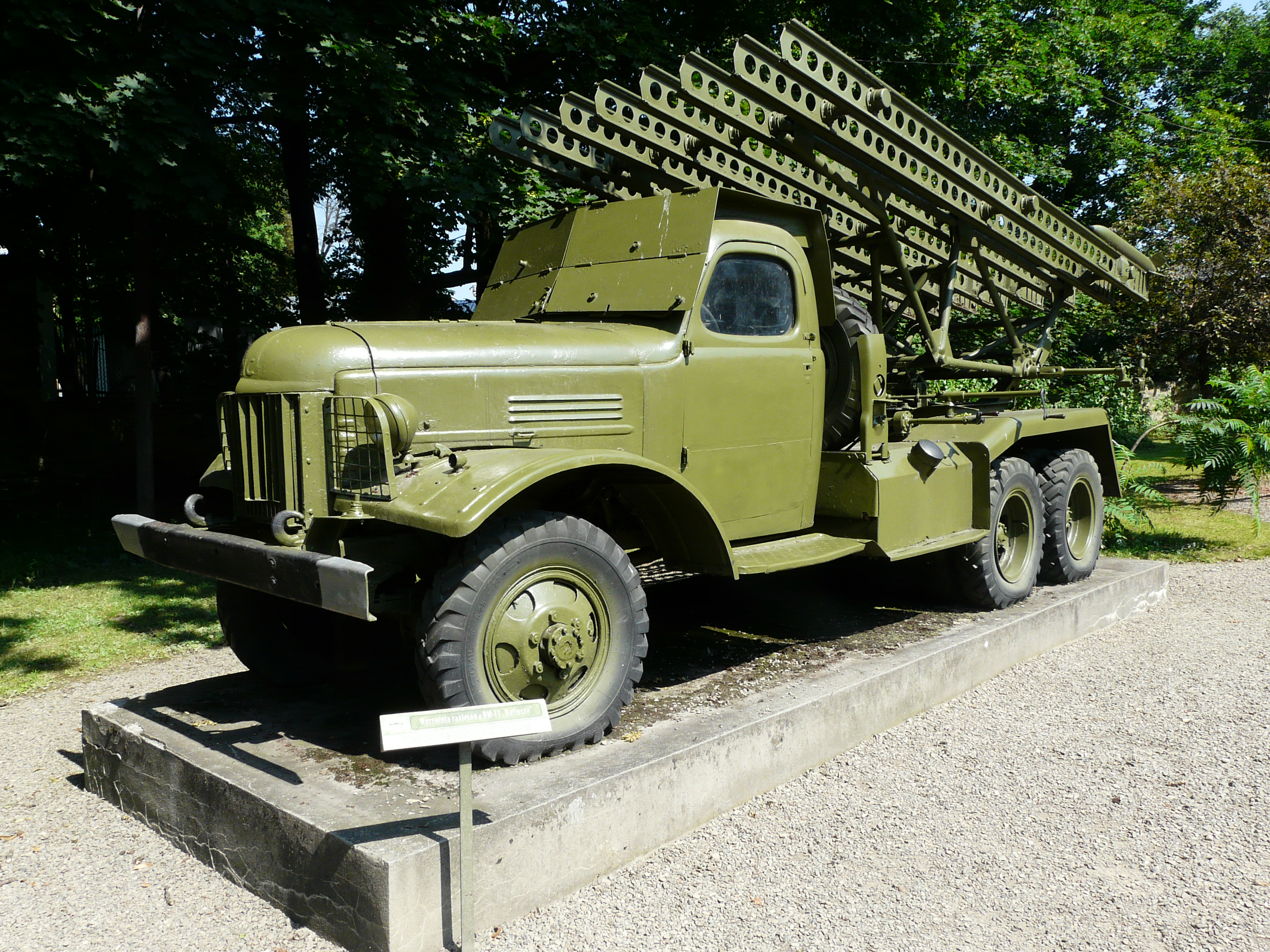 a ZiS-151 with BM-13-16 rocket launcher